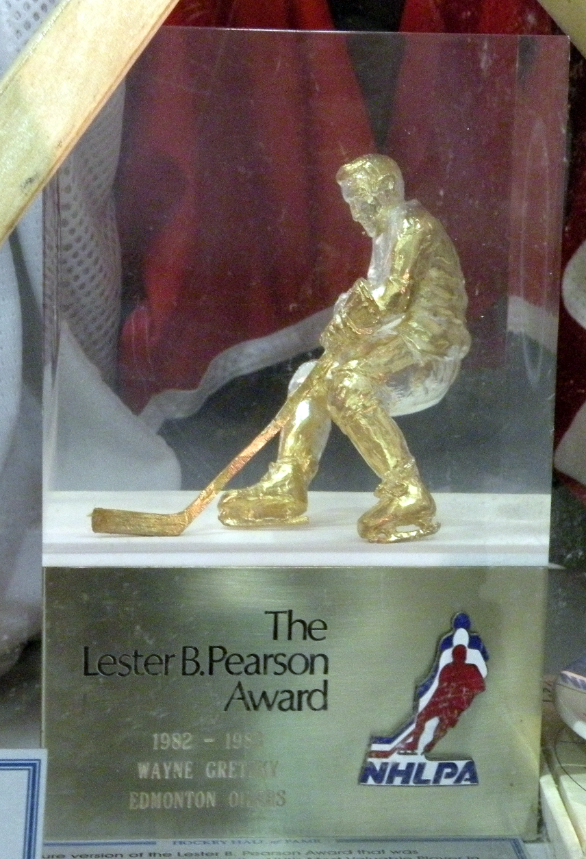 Miniature replica of the Lester B. Pearson Award presented to Wayne Gretzky in 1982–83 as the National Hockey League's most valuable player as selected by the members of the National Hockey League Players' Association. Part of a Hockey Hall of Fame display at Calgary during the 2012 World Junior Hockey Championships.